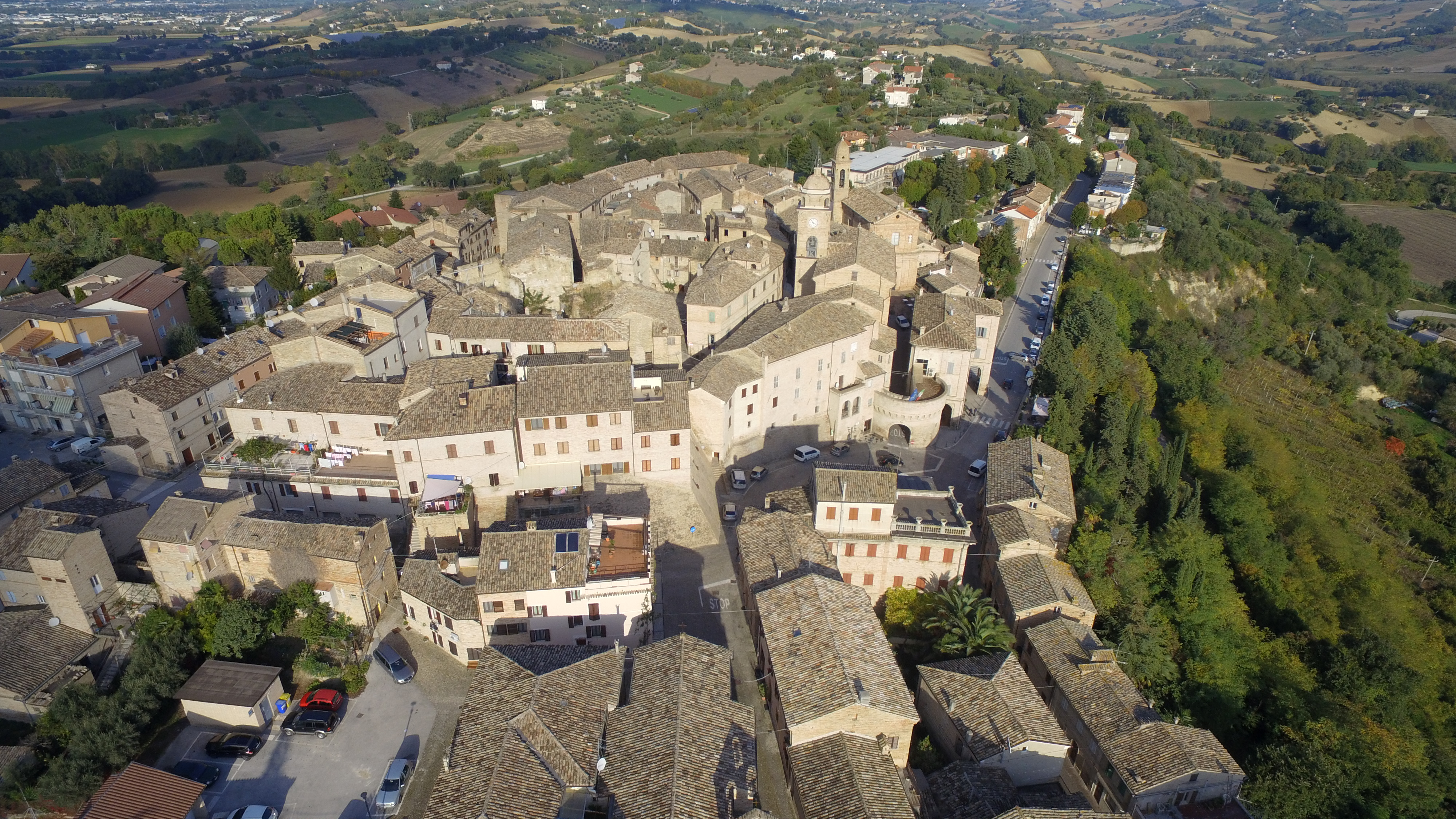 Panoramica del castello